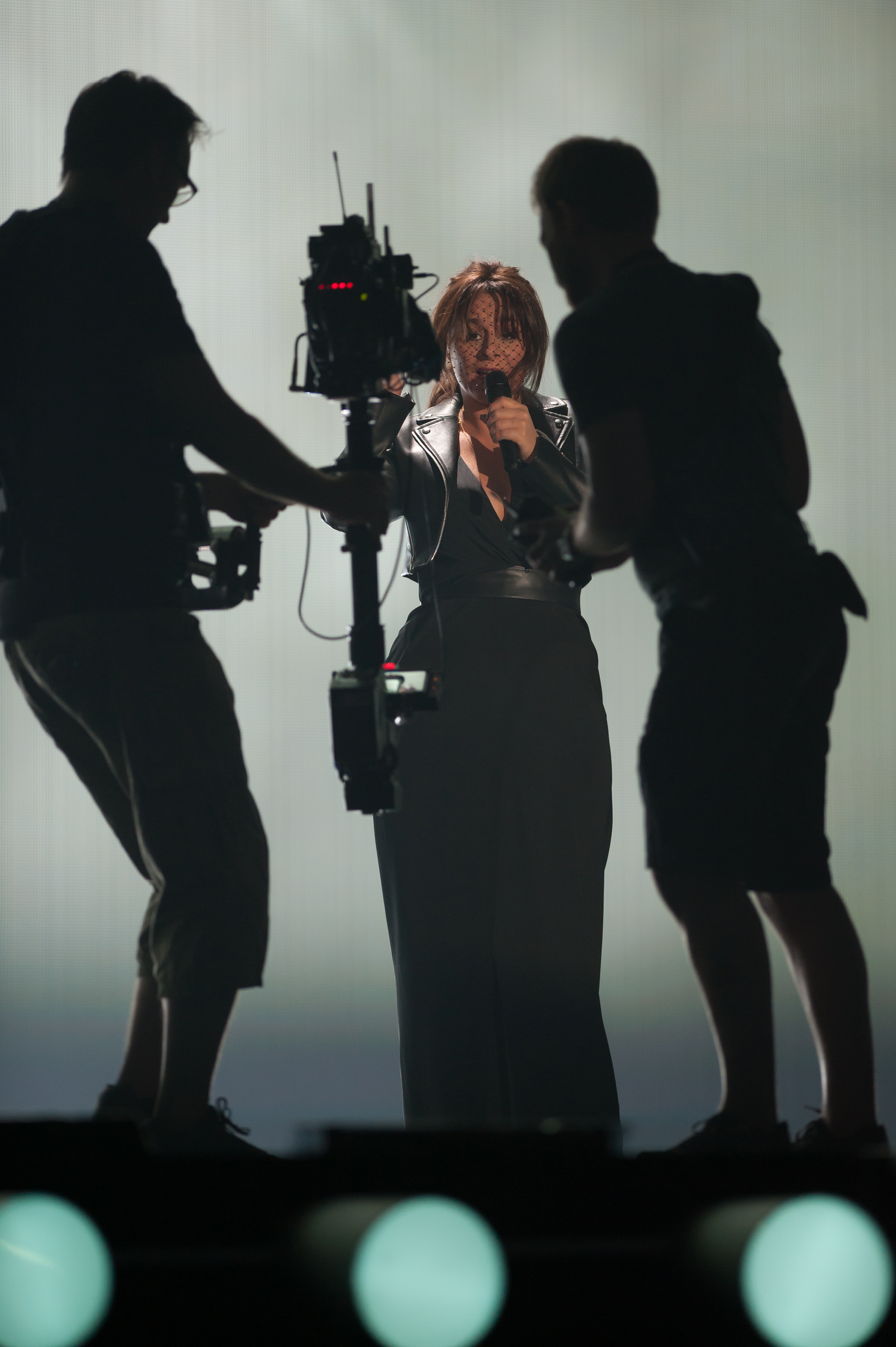 Eurovision Song Contest Vienna 2015: Trijntje Oosterhuis